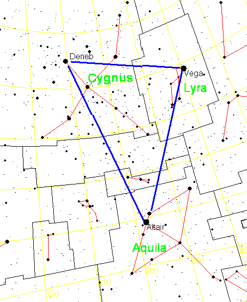 Summer Triangle